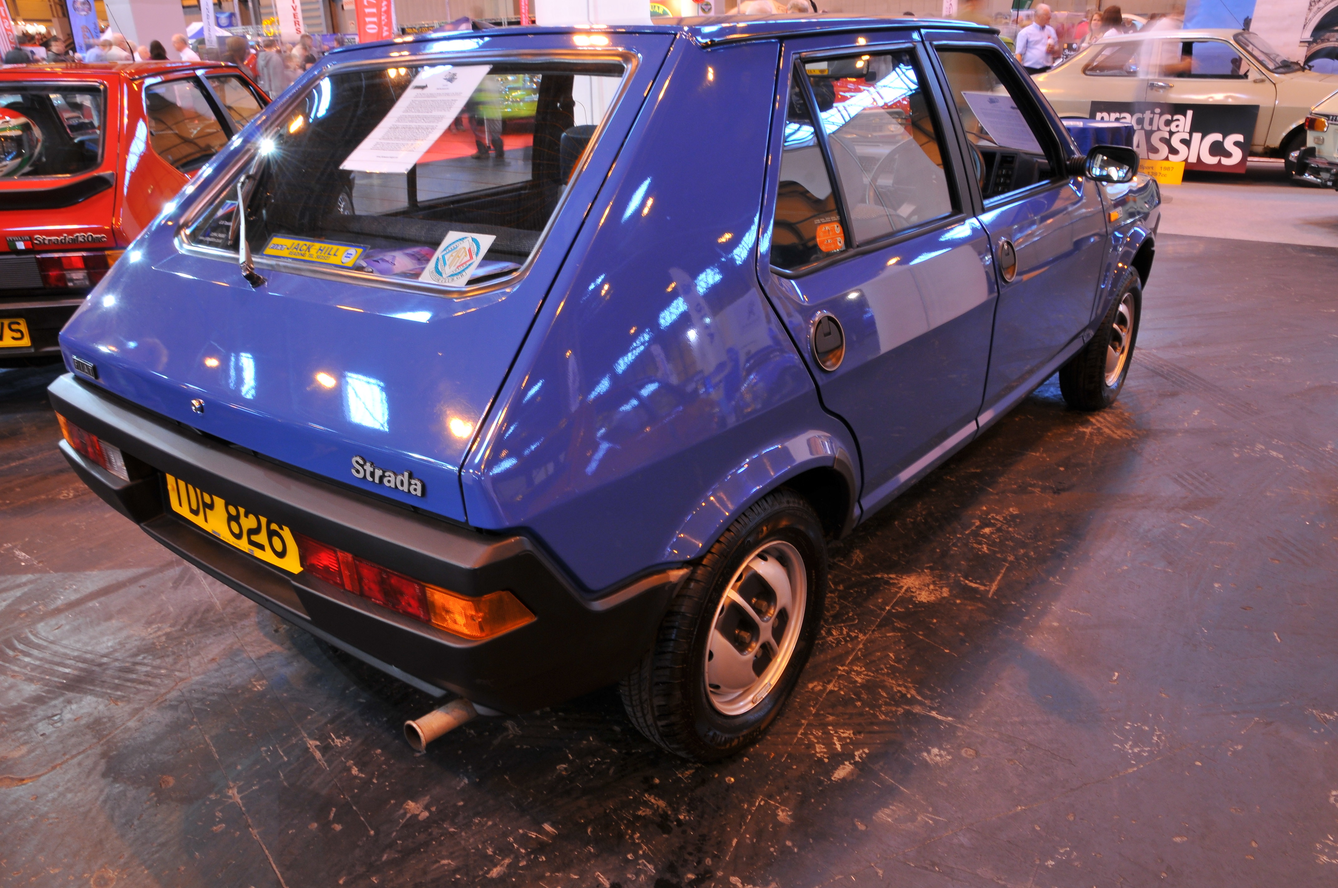 1982 Fiat Strada 65CL at the 2011 NEC Classic Car Show, on the Fiat Motor Club Display